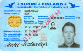 Finnish identity card, renewed on 30 May 2011